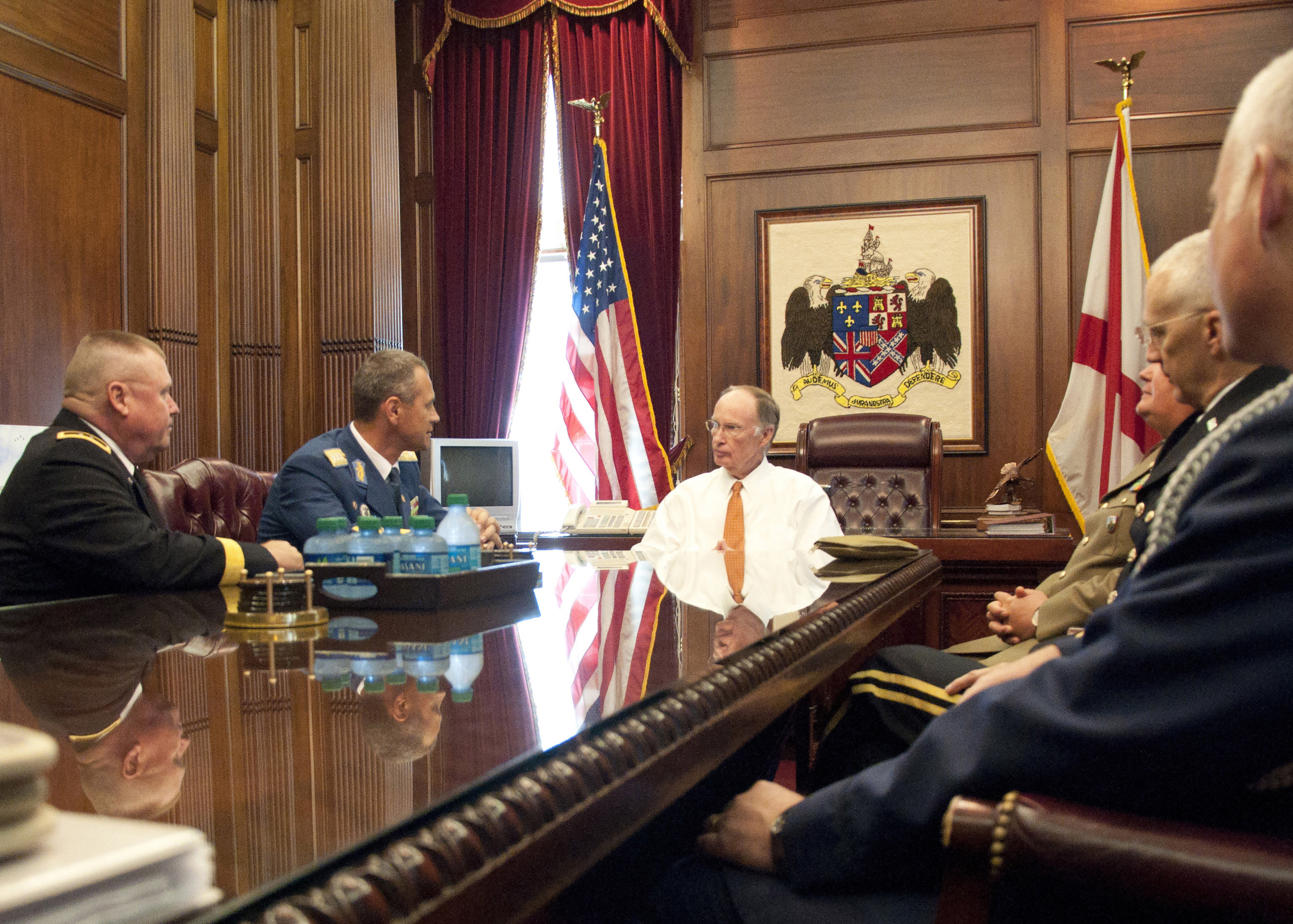 Lt. Gen. Stefan Danila, Romania’s Chief of Defense, alongside Maj. Gen. Perry G. Smith, the adjutant general of Alabama, and several other visitors meet with Alabama’s Gov. Robert Bentley in his office, Sept. 19, 2012.